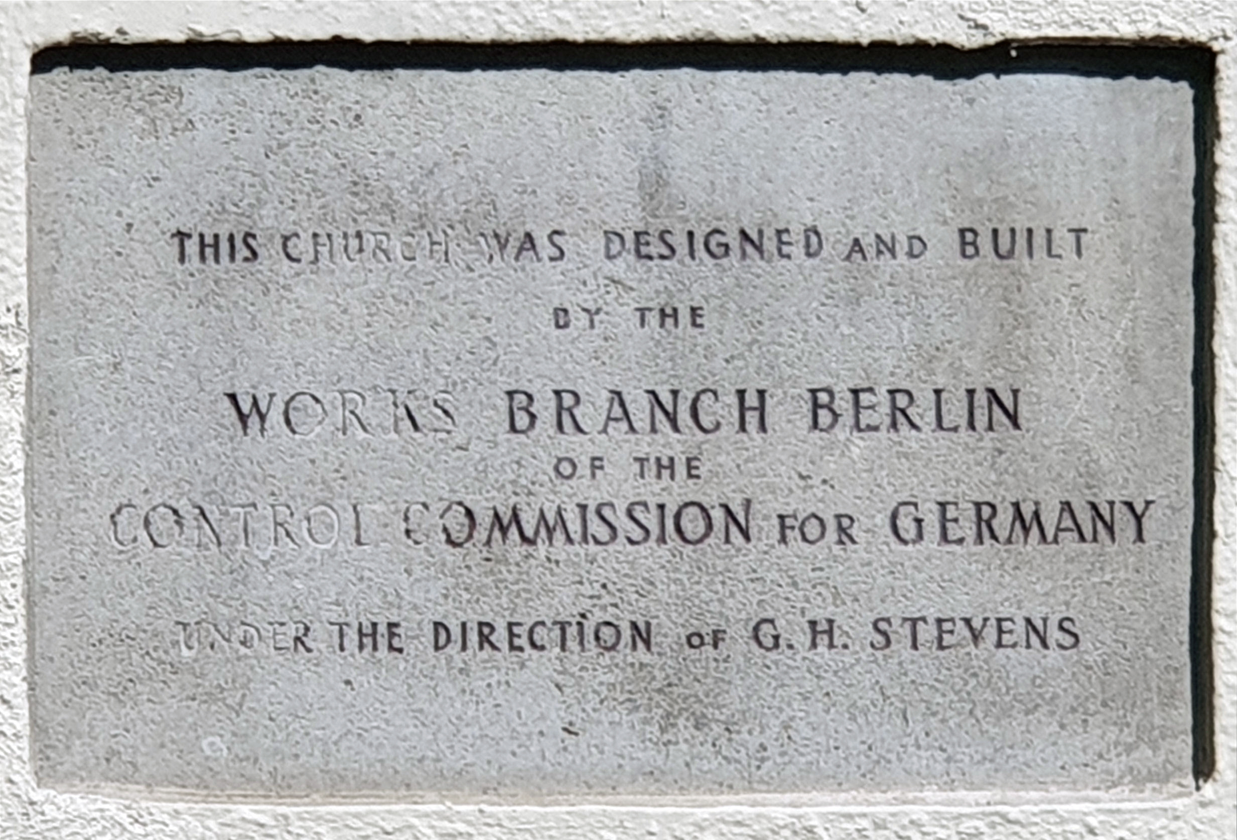 Memorial plaque, St George’s Church, Preußenallee 17, Berlin-Westend, Deutschland